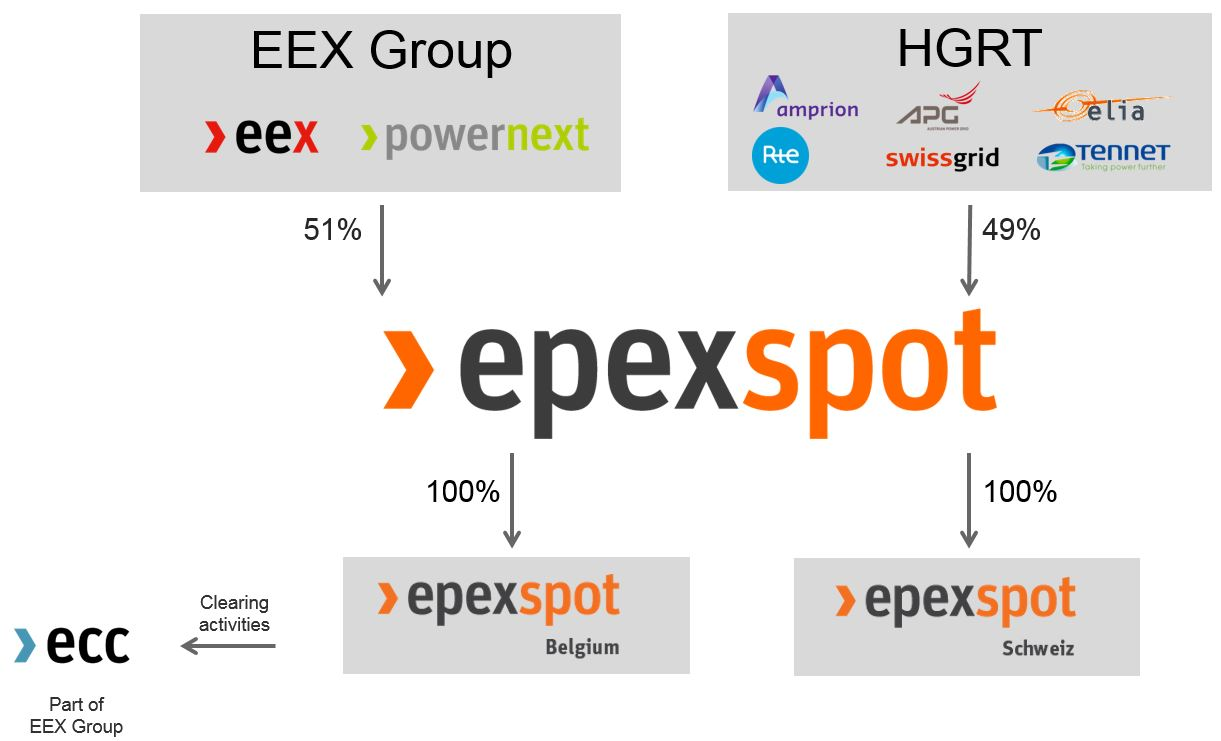 EPEX SPOT Shareholder structure (2017, new logos)